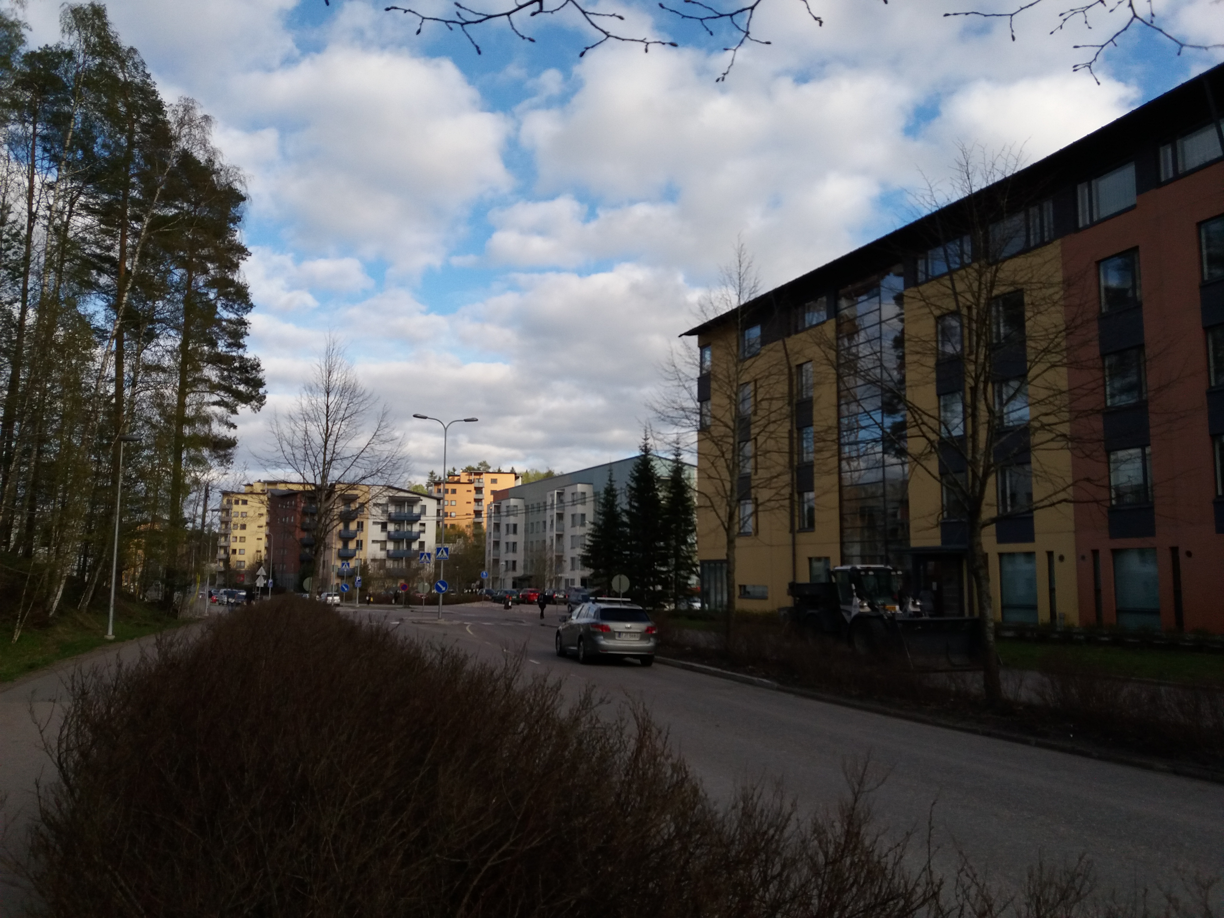 Ullanmäentie street in district Ymmersta, Espoo, Finland